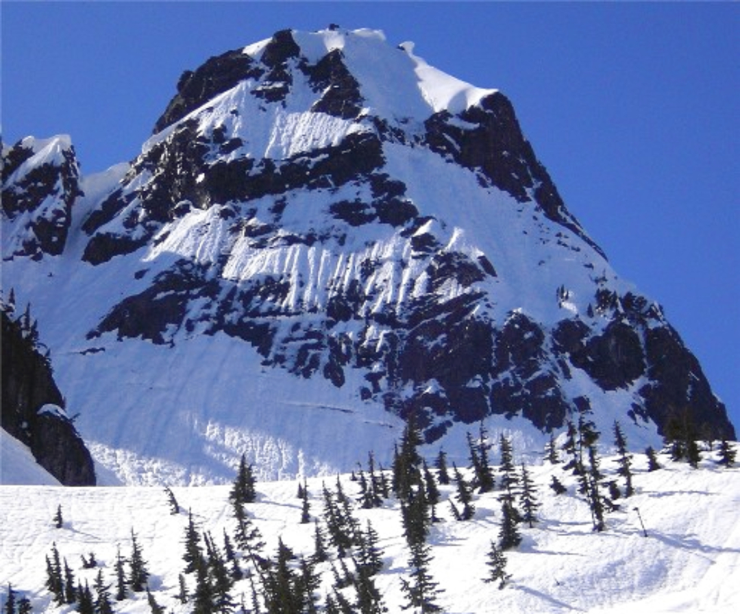 Chair Peak seen from the east from the trail to Snow Lake. April 12, 2008.